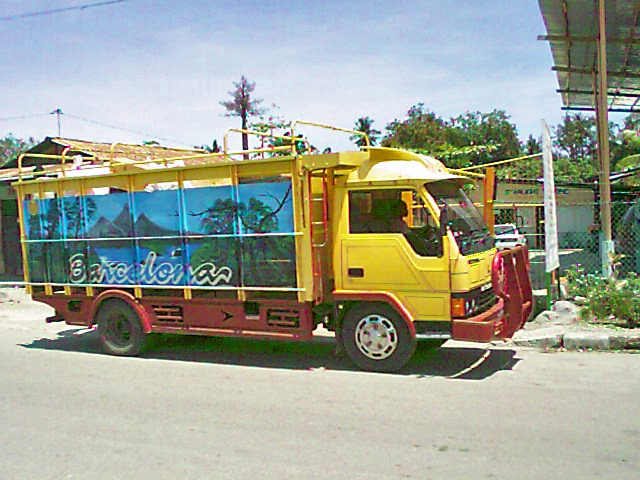 Truck in Dili, Timor-Leste